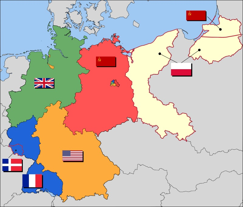 Partition of Germany 1945 after WW II